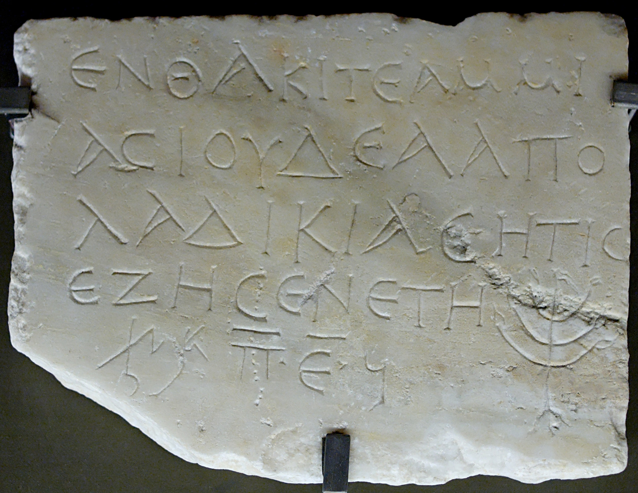 Epitaph of Ammias, with inscriptions in Greek and in a semitic language and an engraved representation of the menorah (seven-branched candelabrum). From the Jewish catacombs of Monteverde in Rome.